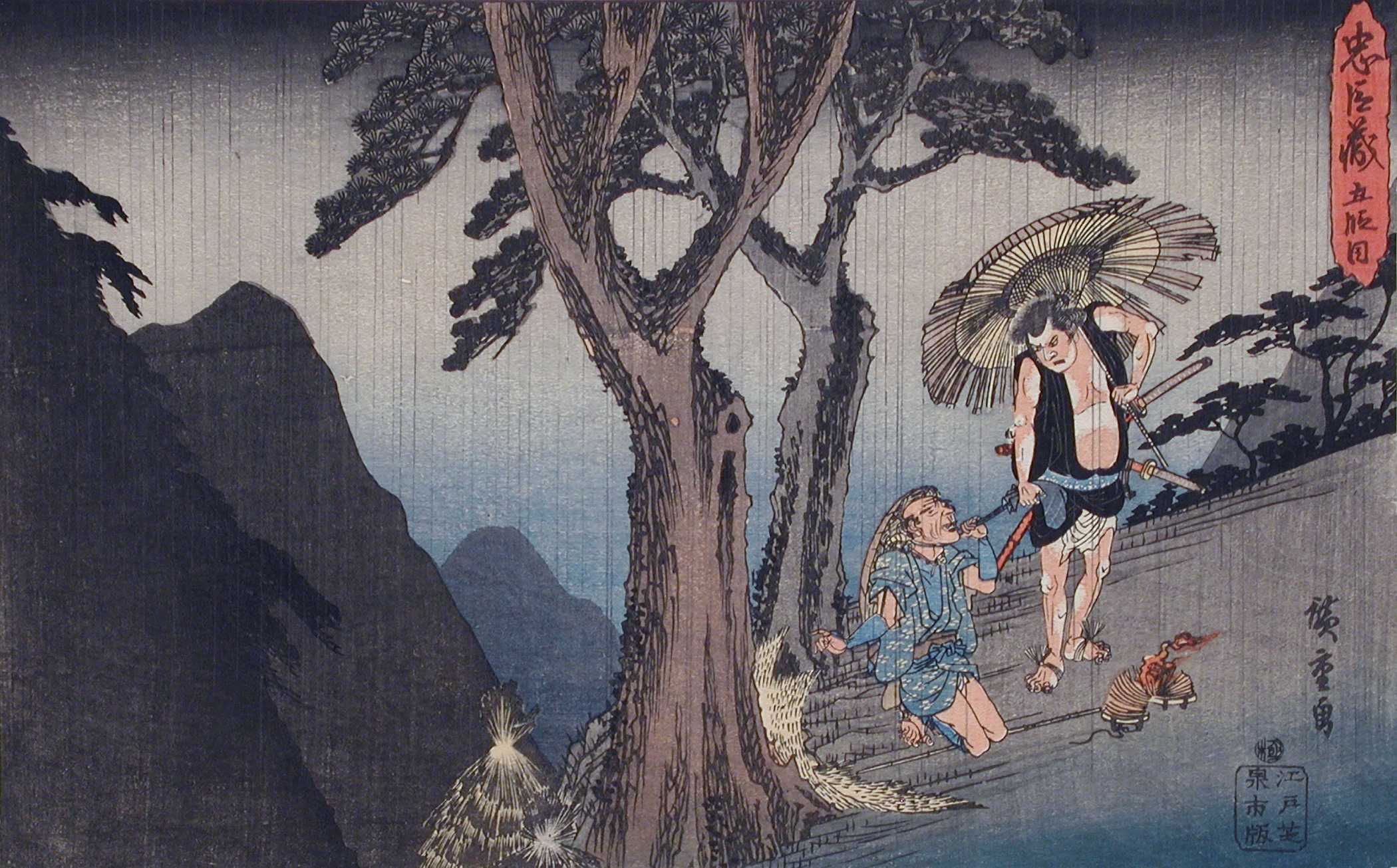 Japan, circa 1835-1839 Series: The Storehouse of Loyal Retainers Prints; woodcuts Color woodblock print Image: 8 3/16 x 13 in. (20.8 x 33.1 cm); Sheet: 8 3/16 x 13 in. (20.8 x 33.1 cm) Gift of Dr. Harvey Eagleson (M.66.35.50) Japanese Art